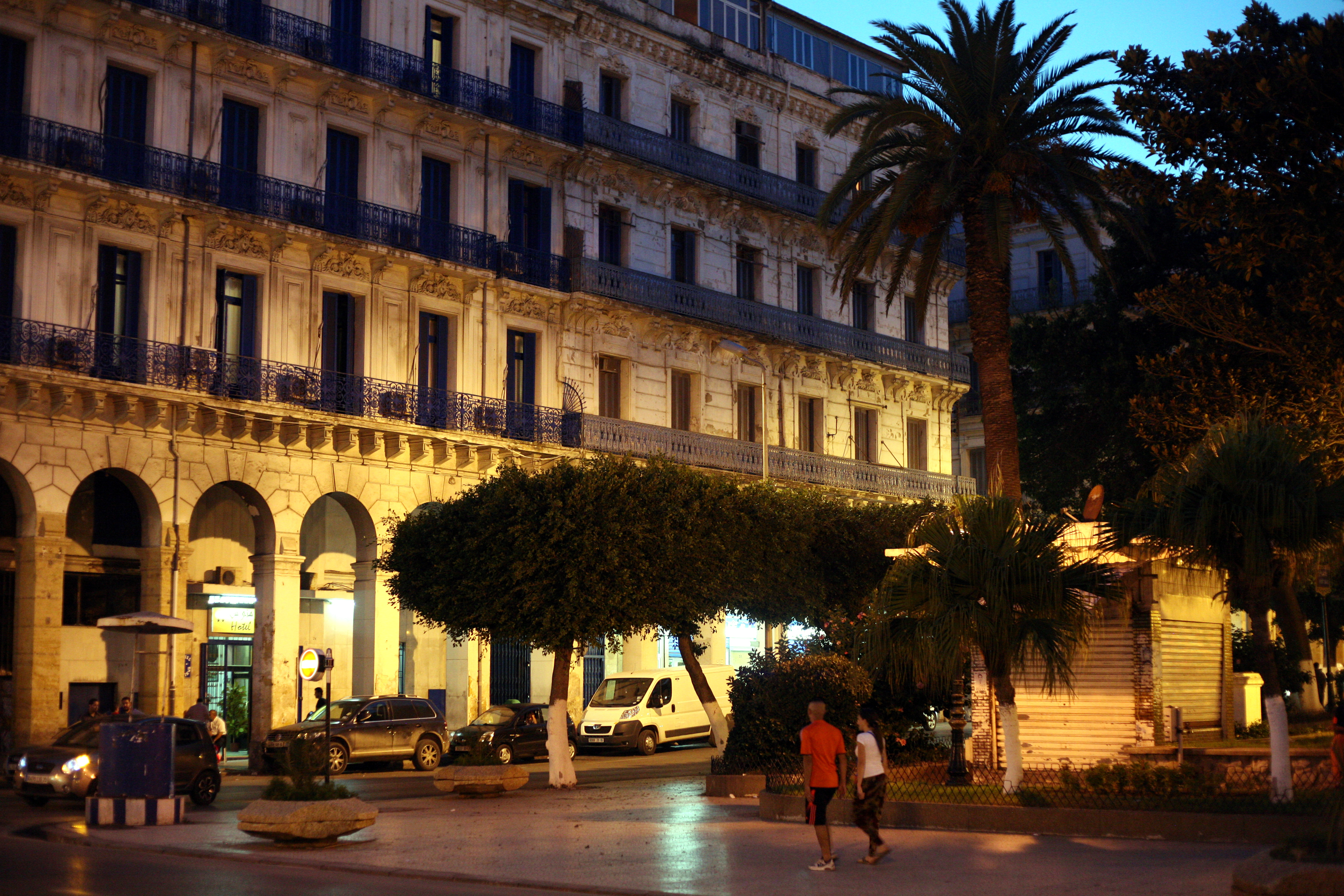 Port Saïd square (formerly Square Bresson) at dusk, Algiers.